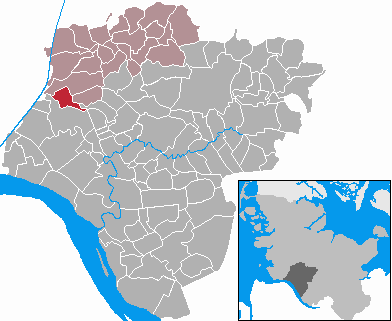 This map shows the area of the municipality Vaalermoor in the Kreis (district) Steinburg, Schleswig-Holstein, Germany.